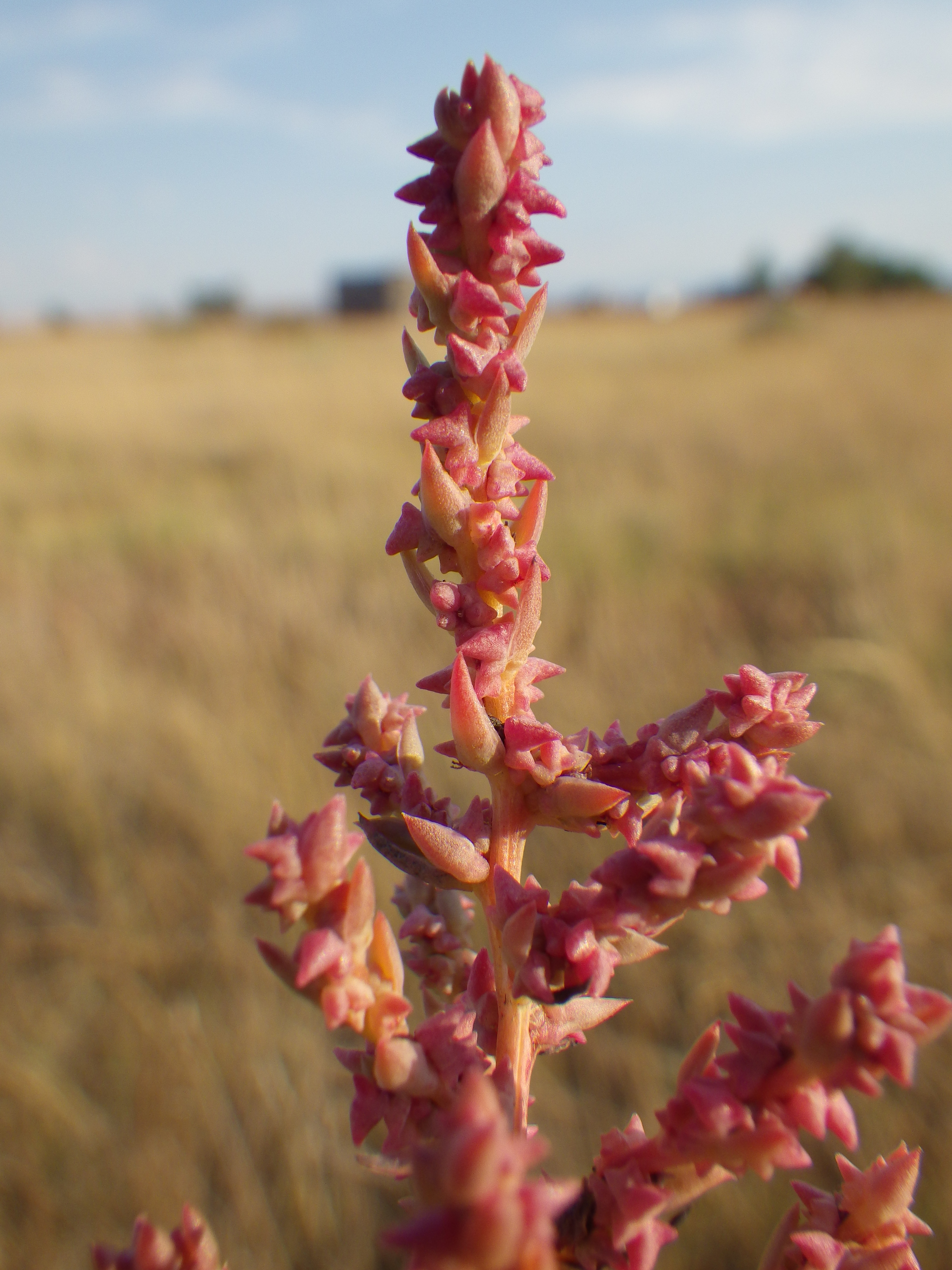 The most common Suaeda in Montana, often an annual to short-lived perennial that by early fall the stems become more lax and ascending (as opposed to erect) and the stems and leaves take on a more reddish coloration.